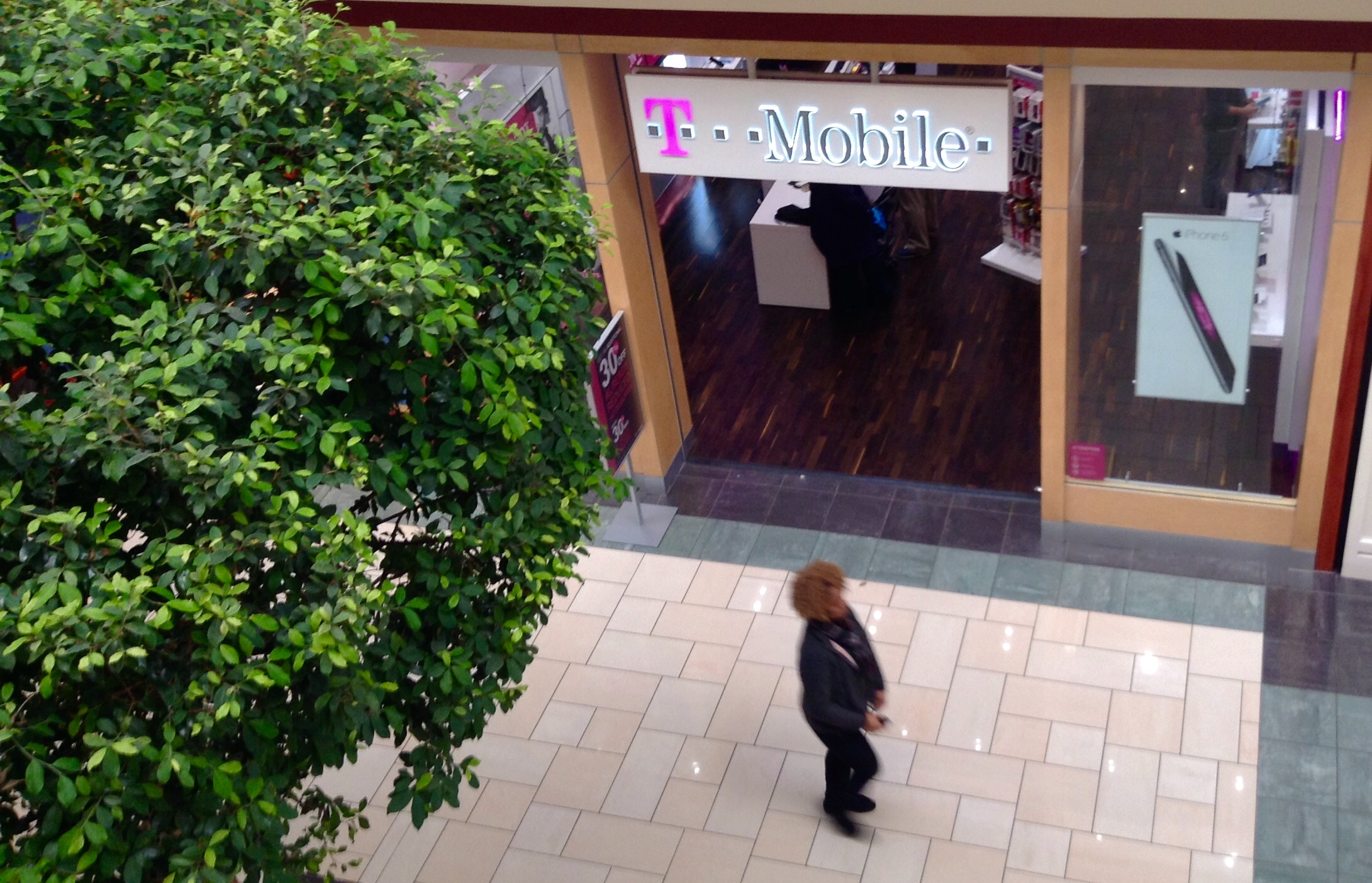 T-Mobile Store in Hartford, CT, image credit to Mike Mozart.